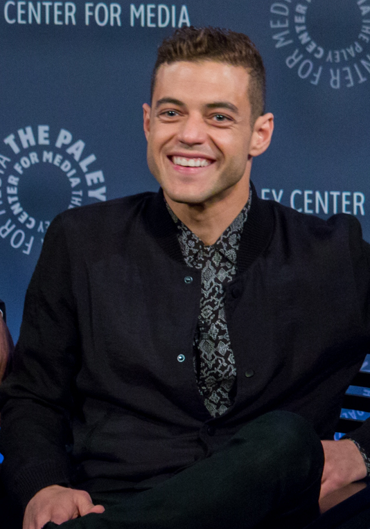 Christian Slater & Rami Malek at the PaleyFest, New York in 2015